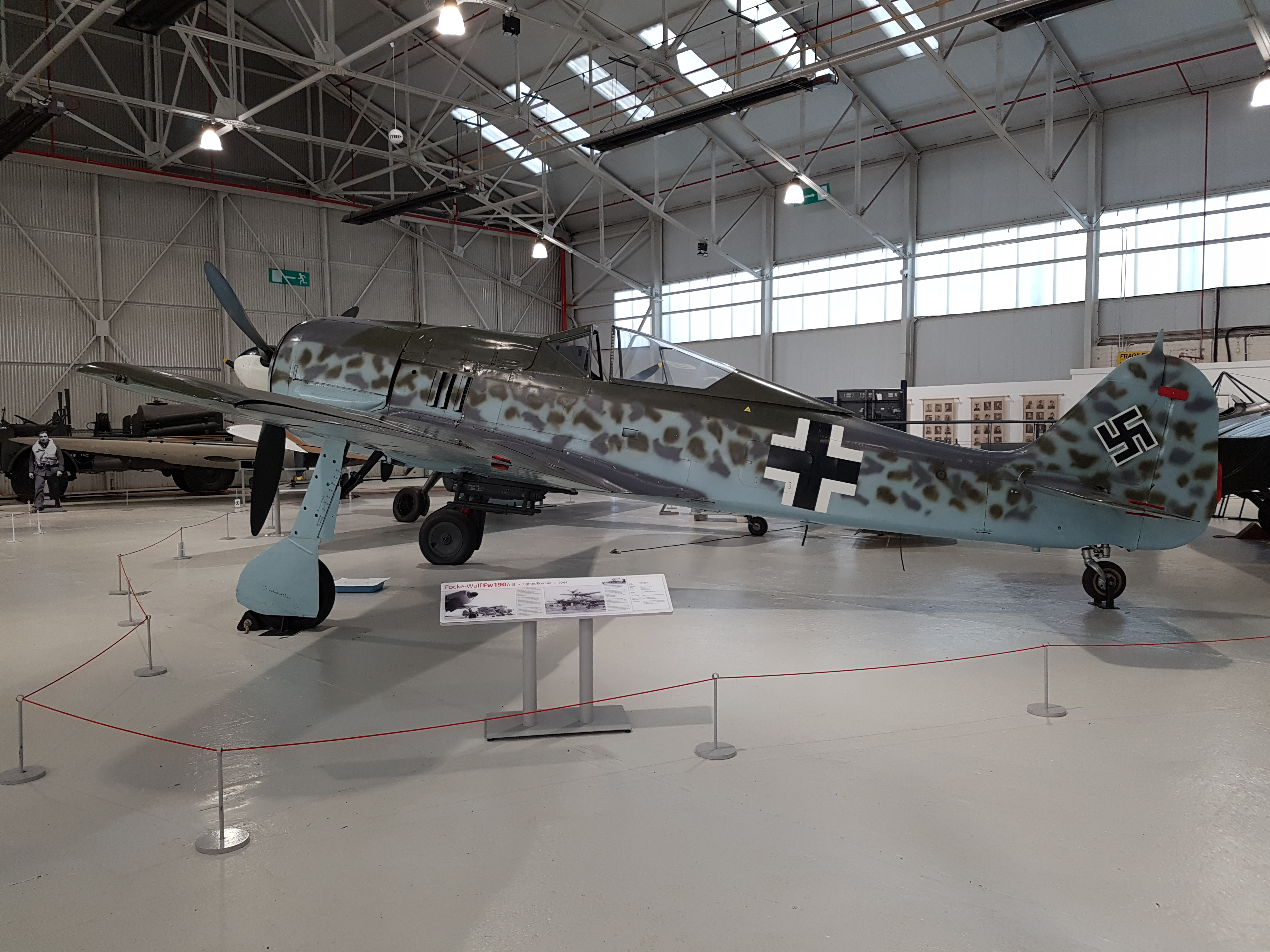 Focke-Wulf Fw 190 fighter aircraft at RAF Cosford.